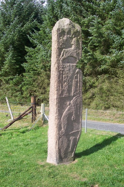 Maiden Stone Pictish Pink granite stone cross from about the 9th century AD Photograph of east face This image was taken from the Geograph project collection. See this photograph's page on the Geograph website for the photographer's contact details. The copyright on this image is owned by Stephen Samson and is licensed for reuse under the Creative Commons Attribution-ShareAlike 2.0 license. Attribution: Stephen Samson